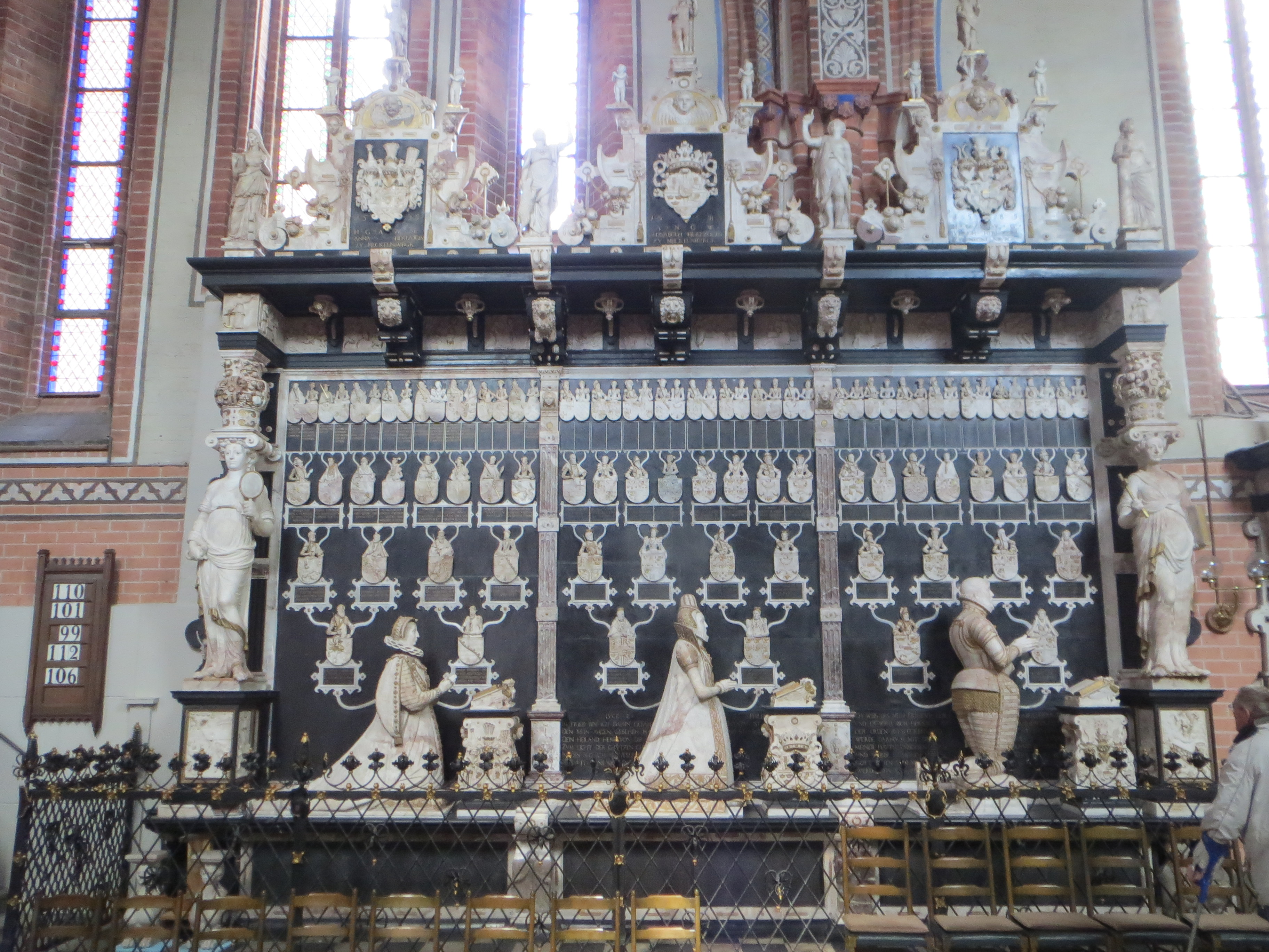 Grave of Ulrich, Duke of Mecklenburg and his 2 wives Elizabeth of Denmark, Duchess of Mecklenburg and Anna of Pomerania